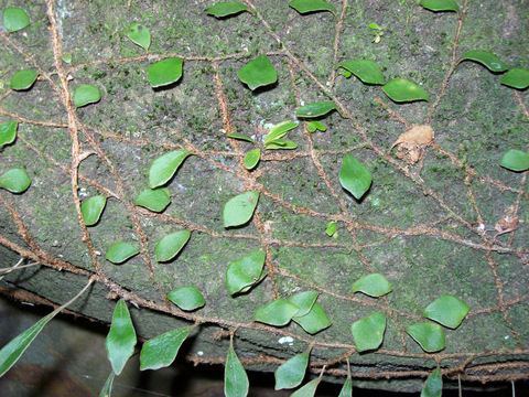 Pyrrosia rupestris (Rock Felt Fern) showing rhizomes. Also a tiny juvenile Birds Nest Fern in shot.